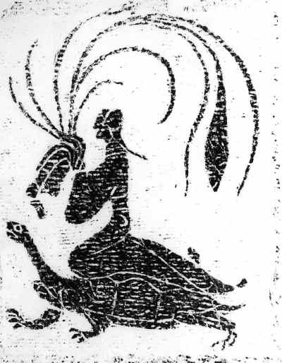 "An immortal (xian) riding a tortoise", a Han Dynasty design in Qilingang (麒麟岗), Xijiao (西郊), Nanyang City ( 南阳市), Hebei